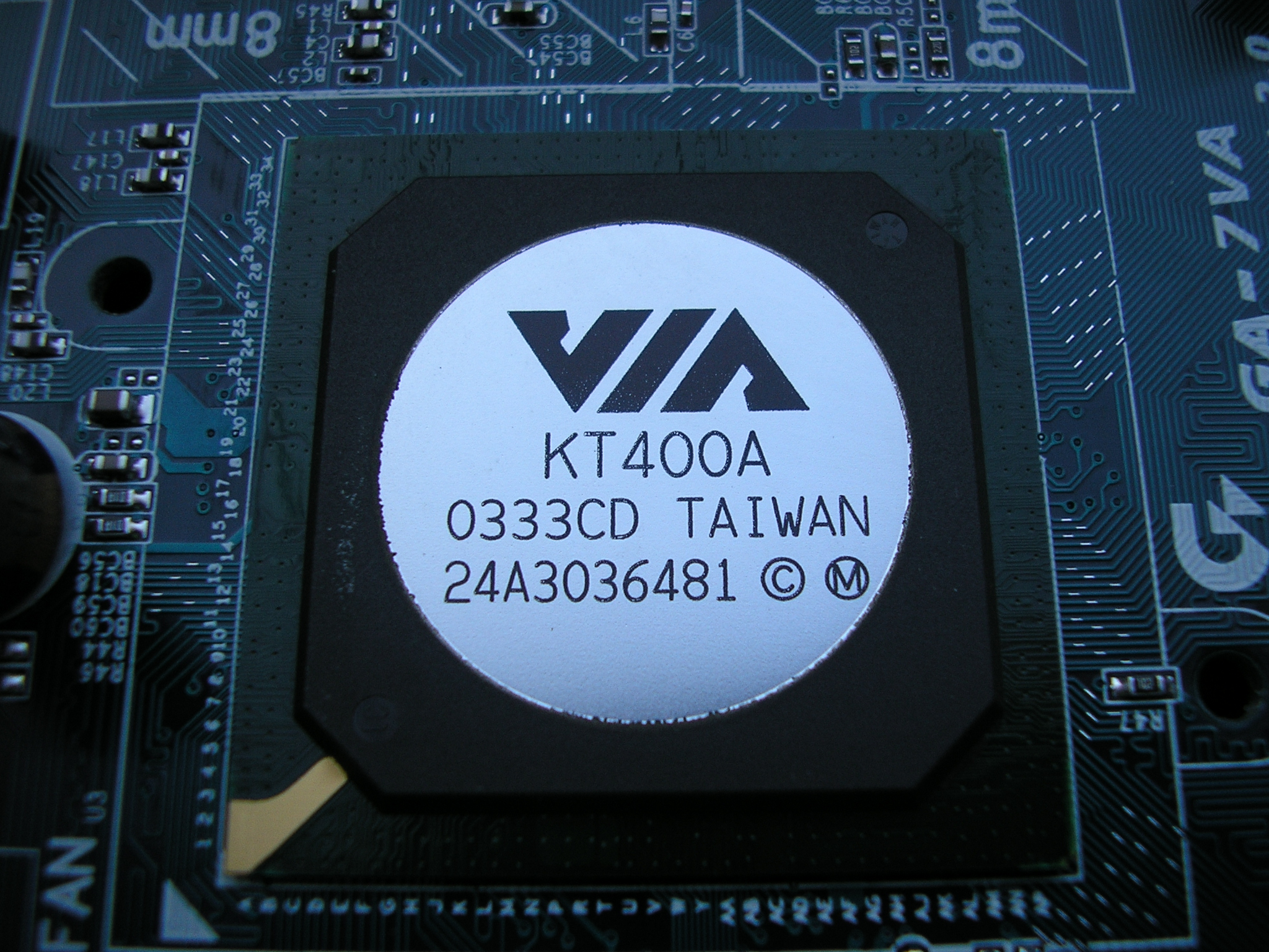 VIA KT400 Chipset: VIA KT600 Northbridge (heatsink removed)